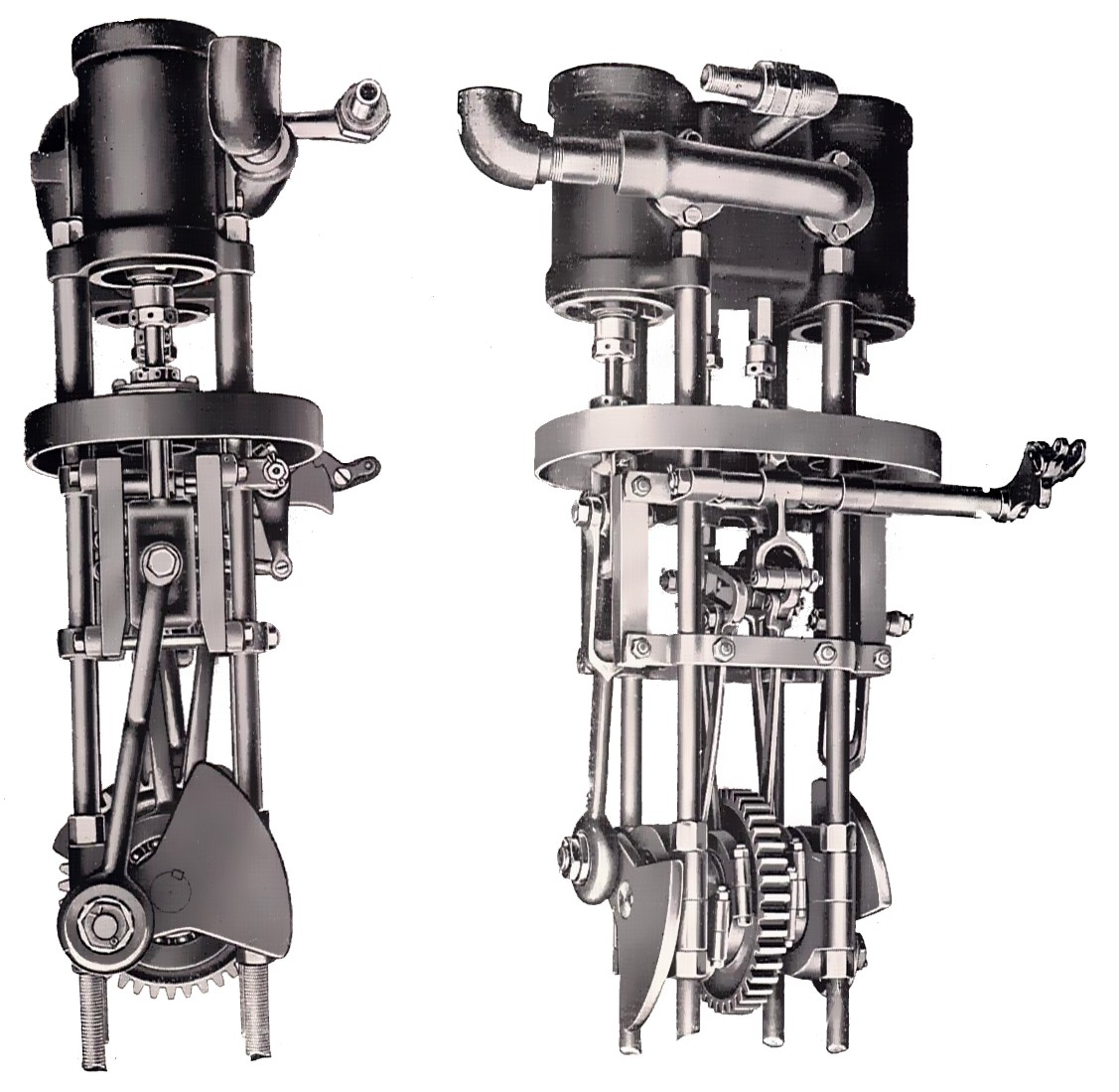 Stanley steam car engine Stanley steam car engine, showing two high pressure cylinders and chain transmission Scans from 'The Book of the Motor Car', Rankin Kennedy C.E., 1912 See other images from this source in Scans from 'The Book of the Motor Car'